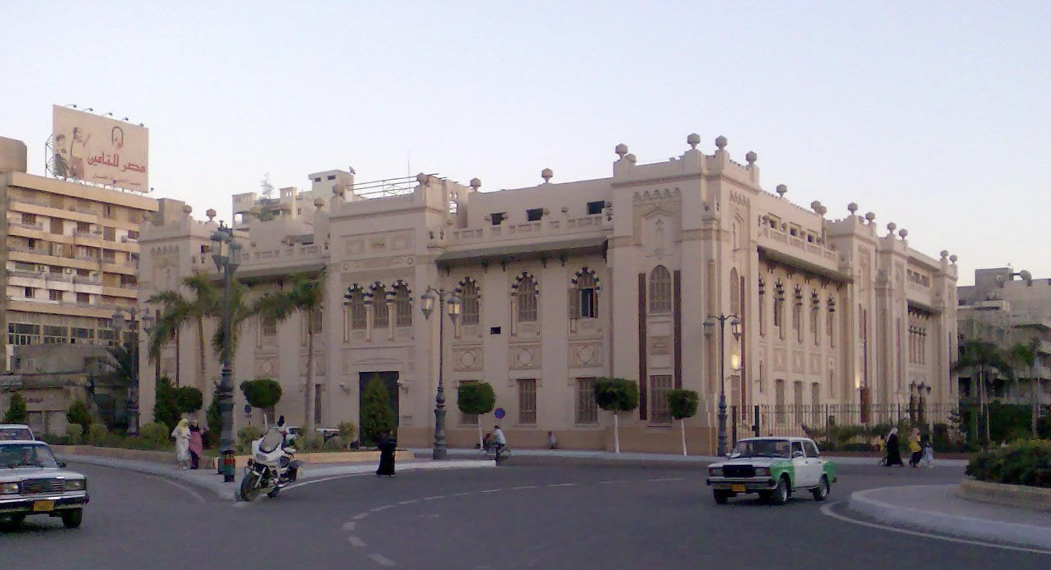 Damanhur Opera House